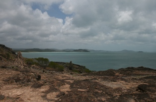 Tip of Cape York, Queensland, Australia